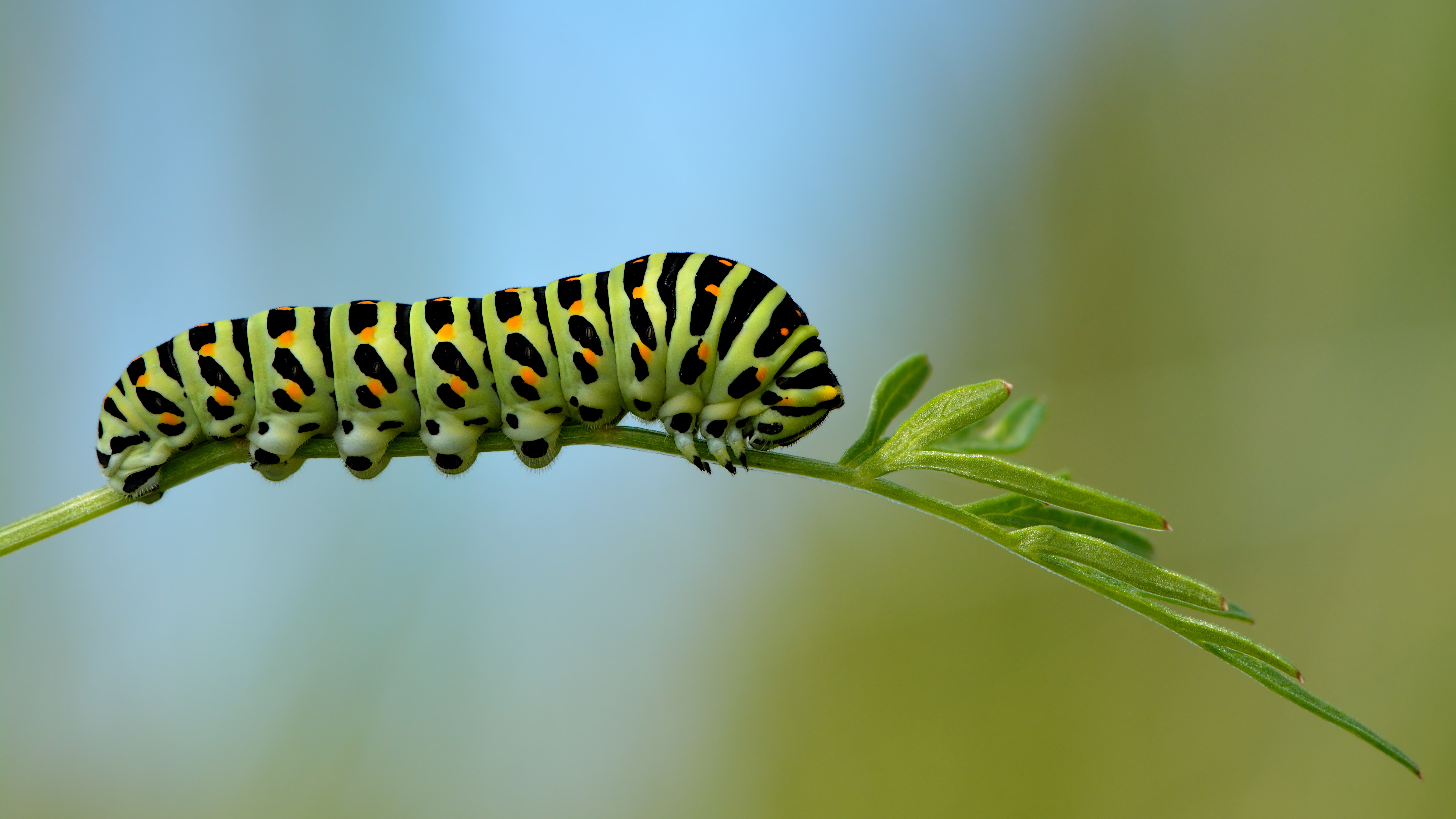 Old World swallowtail (Papilio machaon) caterpillar on a wild carrot (Daucus carota) leaf. Niitvälja Bog, Estonia.